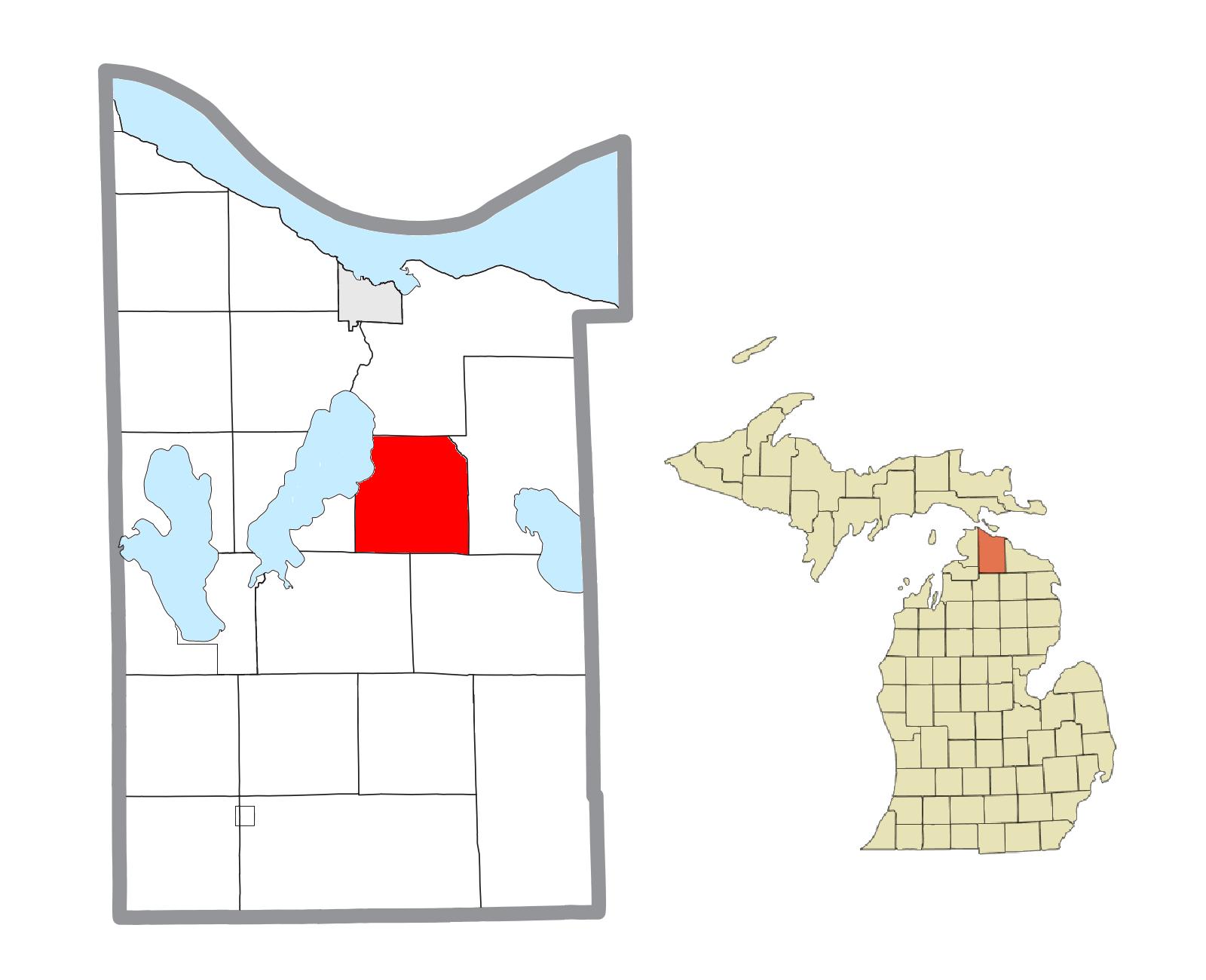 Aloha Township, MI